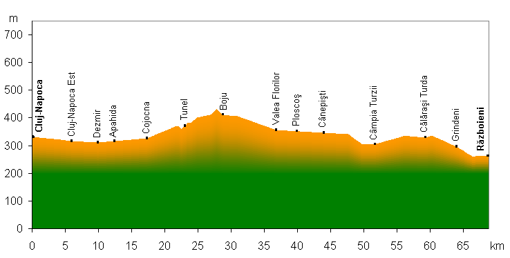 elevation profile of the railway track Cluj-Napoca - Razboieni